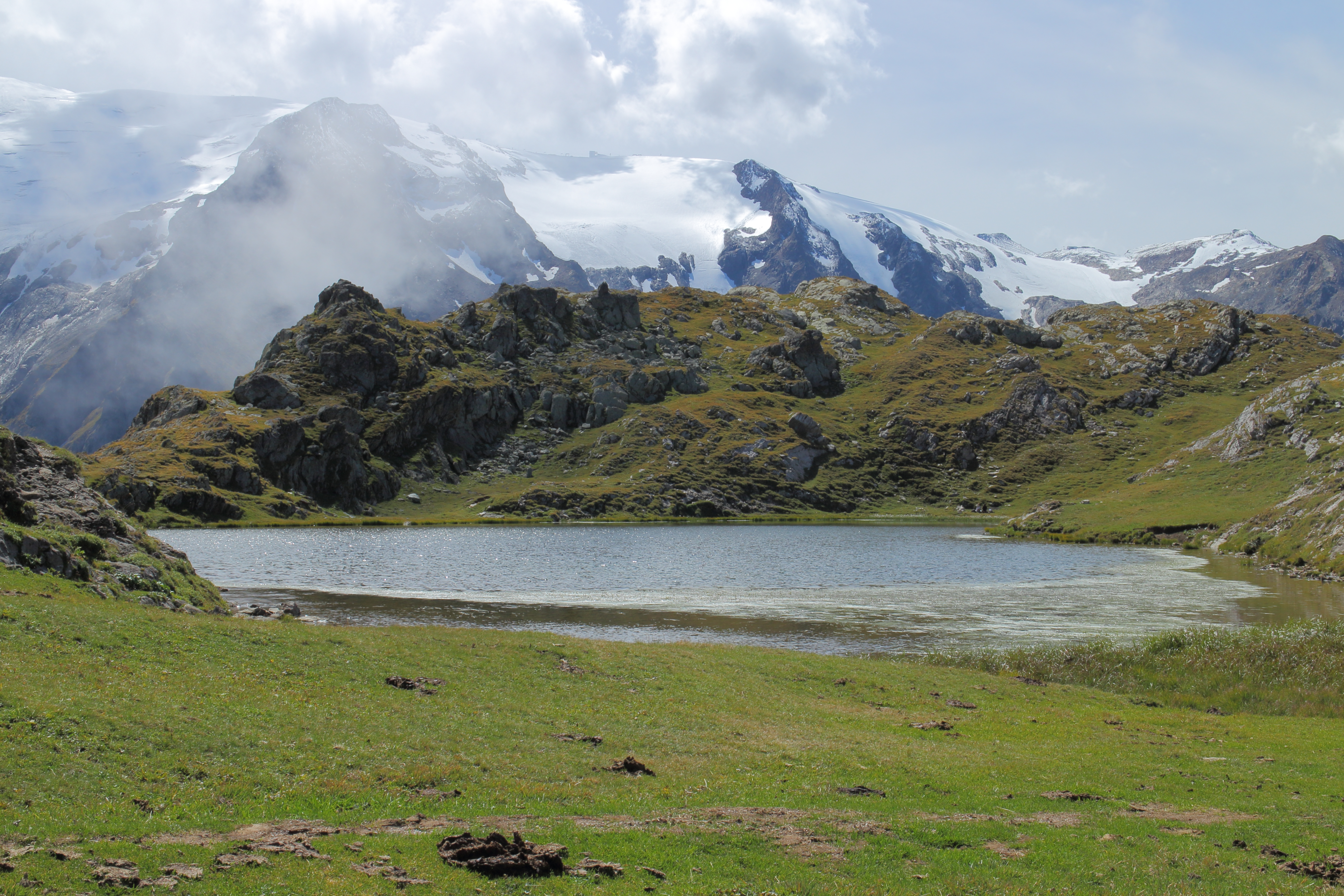 Lac Lérié, La Grave, Frankrijk (2400 m.) Mirror La Meije.